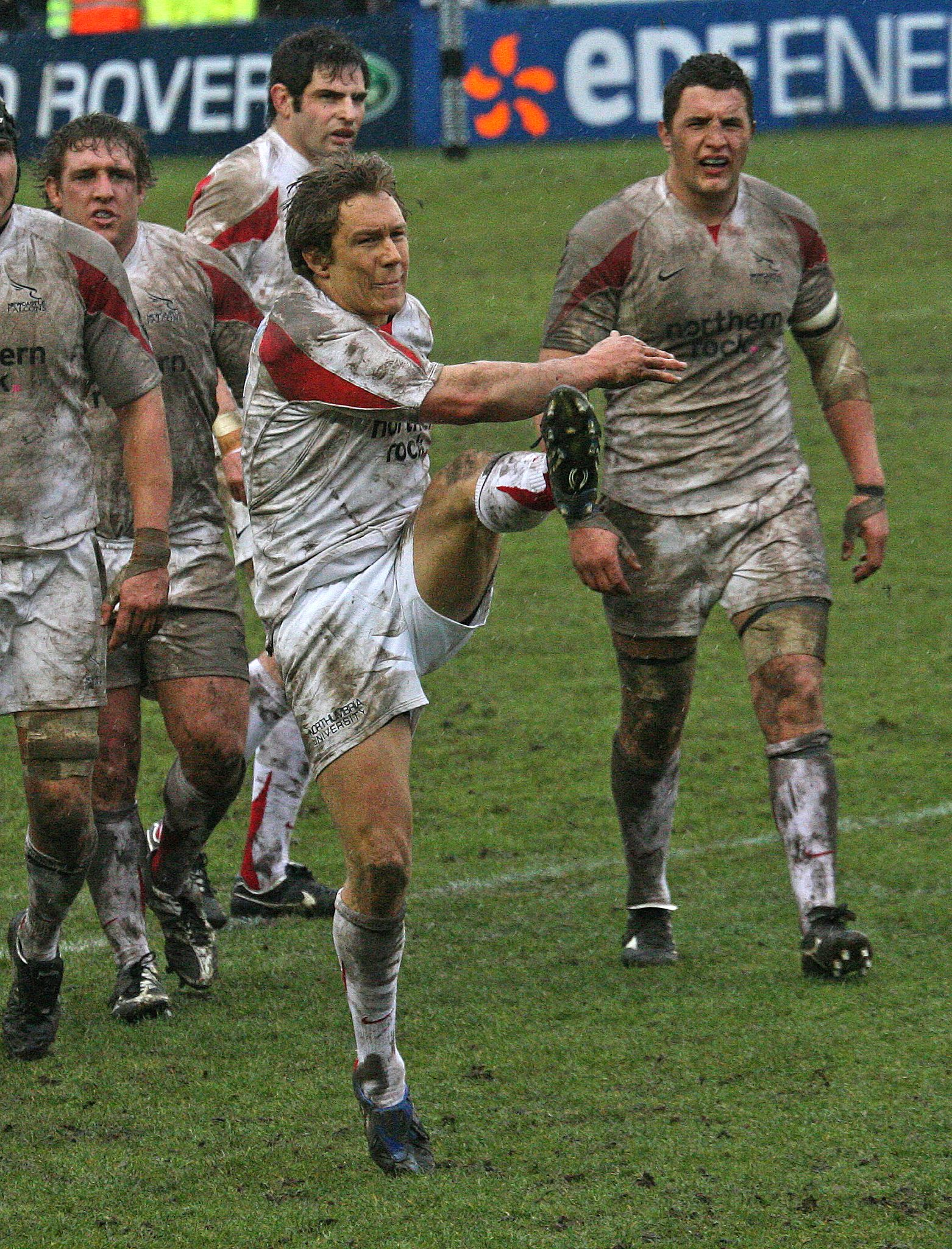 Jonny Wilkinson with English team Newcastle Falcons face to london Harlequins in Guinness Premiership 29.3.2008. Jonny Wilkinson avec les Newcastle Falcons.